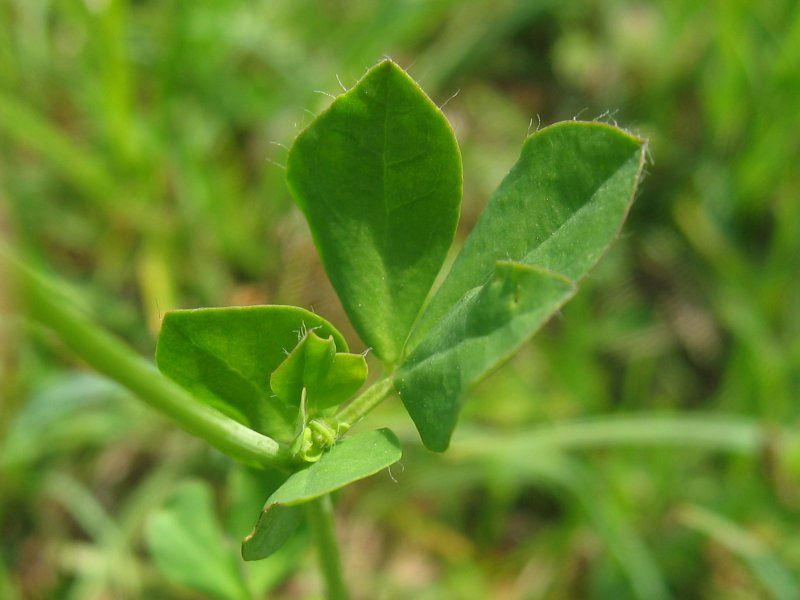 Sumpf-Hornklee (Lotus pedunculatus), Gragetopshof